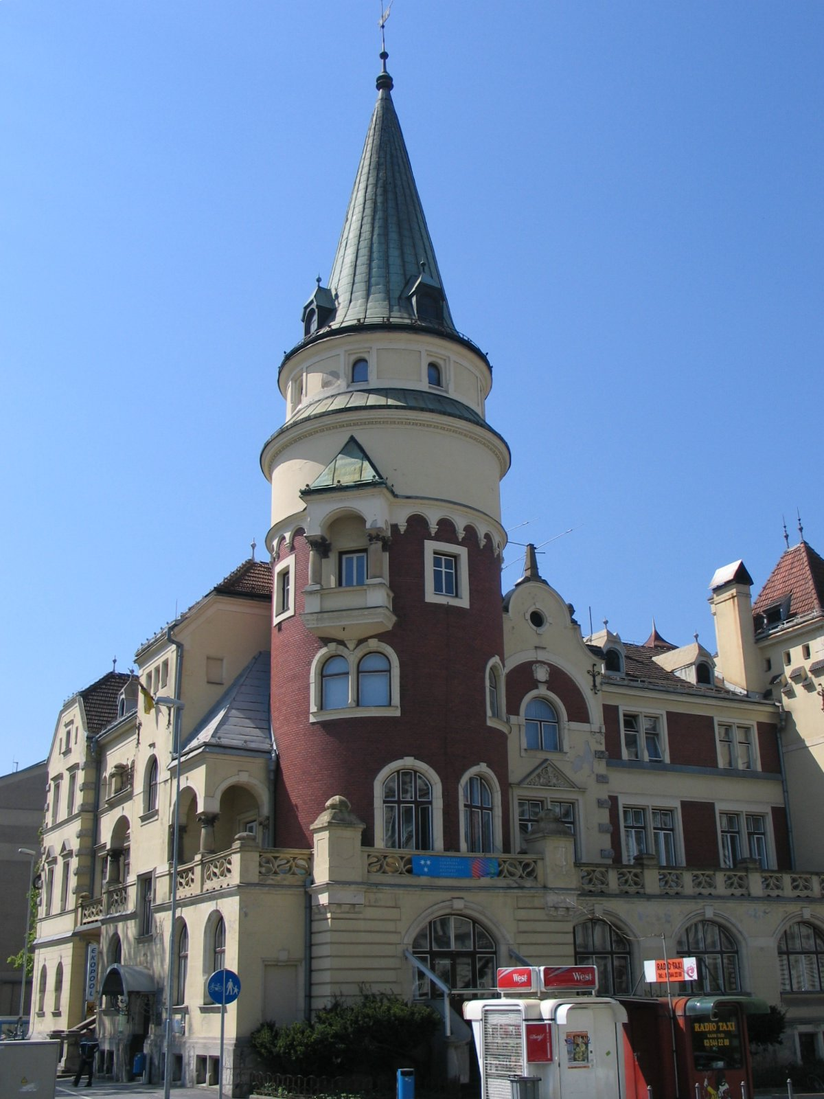 The Celje Hall on Krekov trg (Krek Square) in Celje, Slovenia. Designed by Peter Paul Brang (1852-1925) and built between 1905 and 1906.